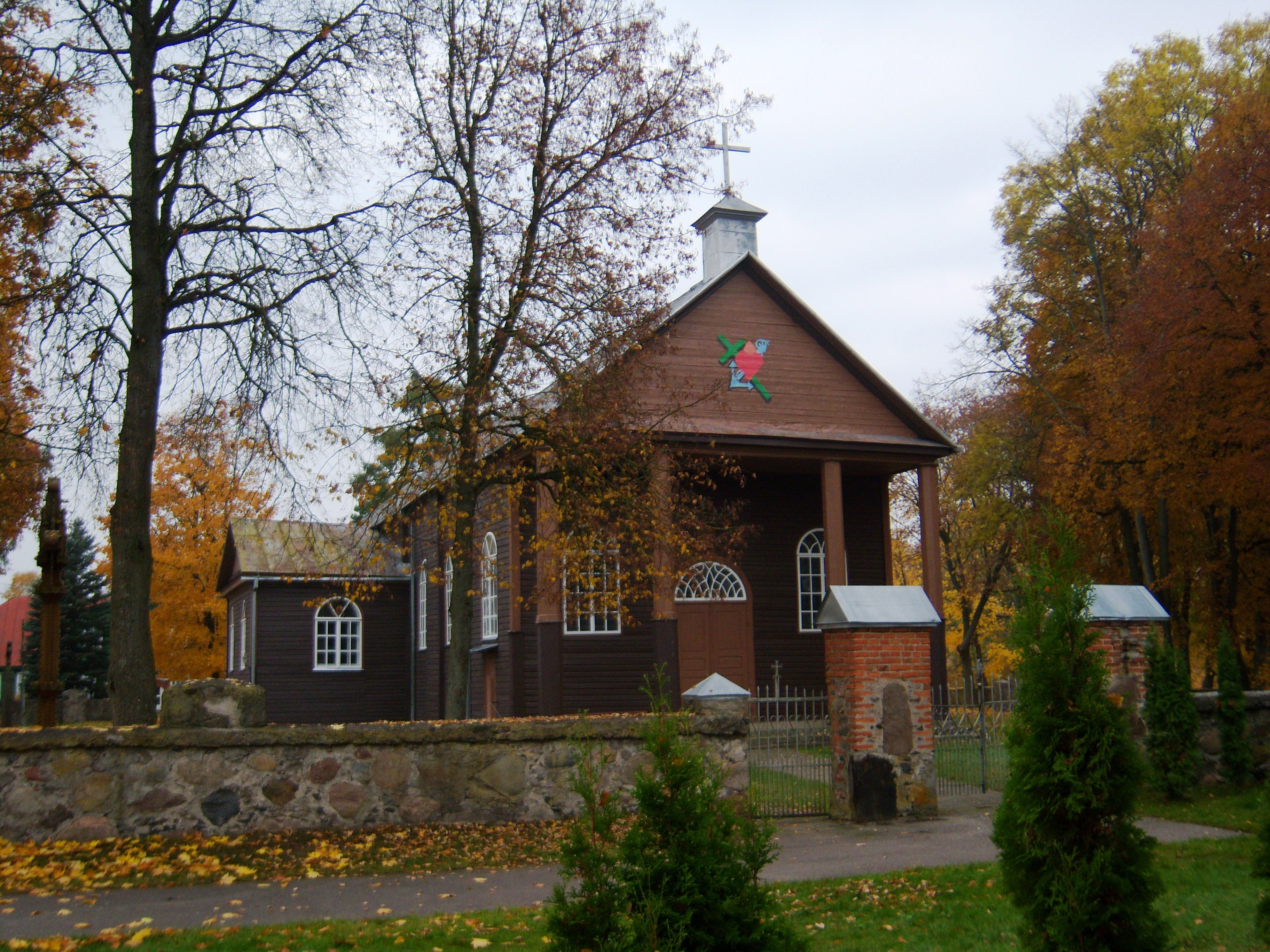 Roman Catholic Church in Kurkliai, Anykščiai District, Lithuania